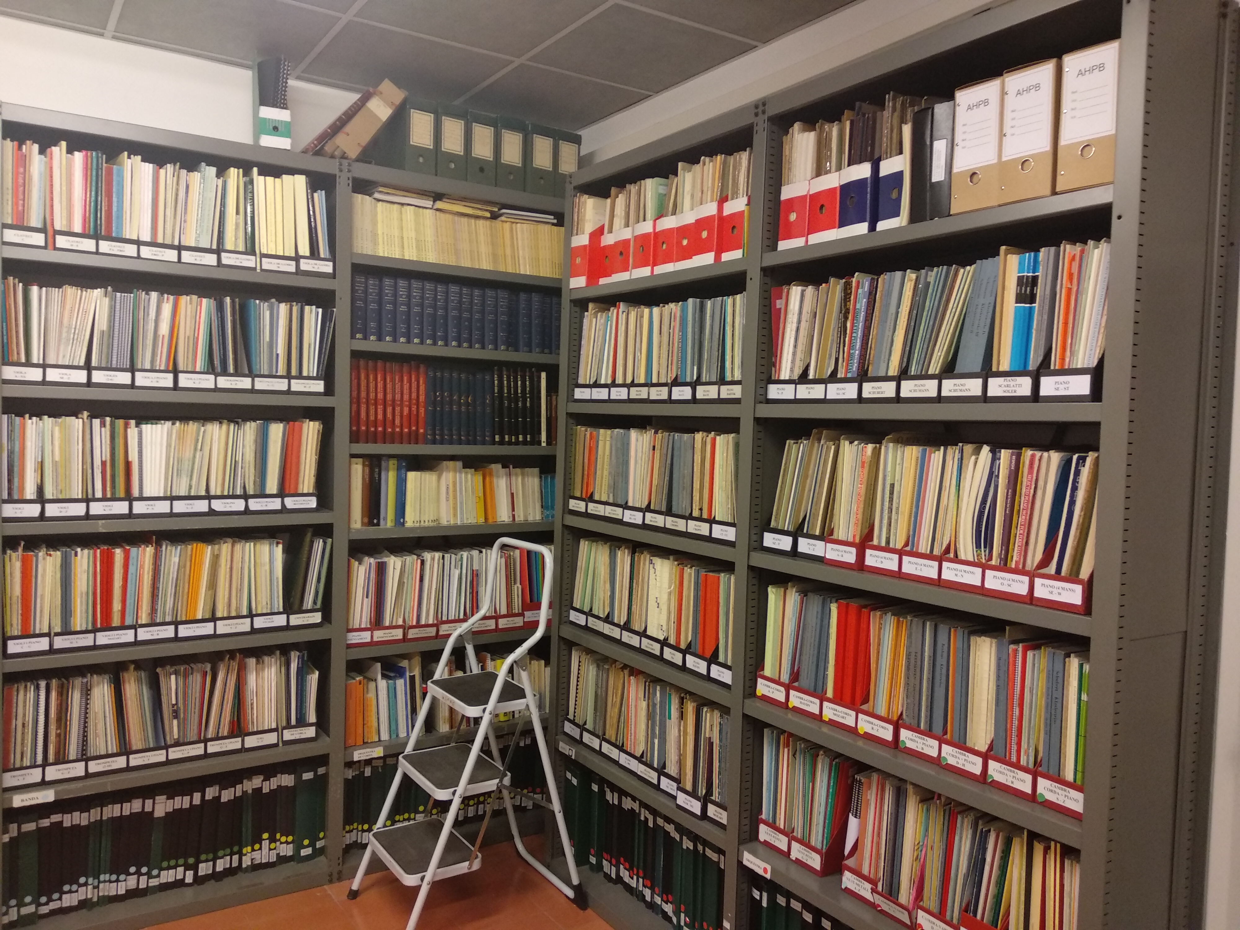 Library